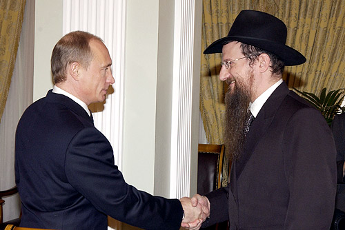 Novo-Ogaryovo. President Putin with Chief Rabbi of Russia Berl Lazar